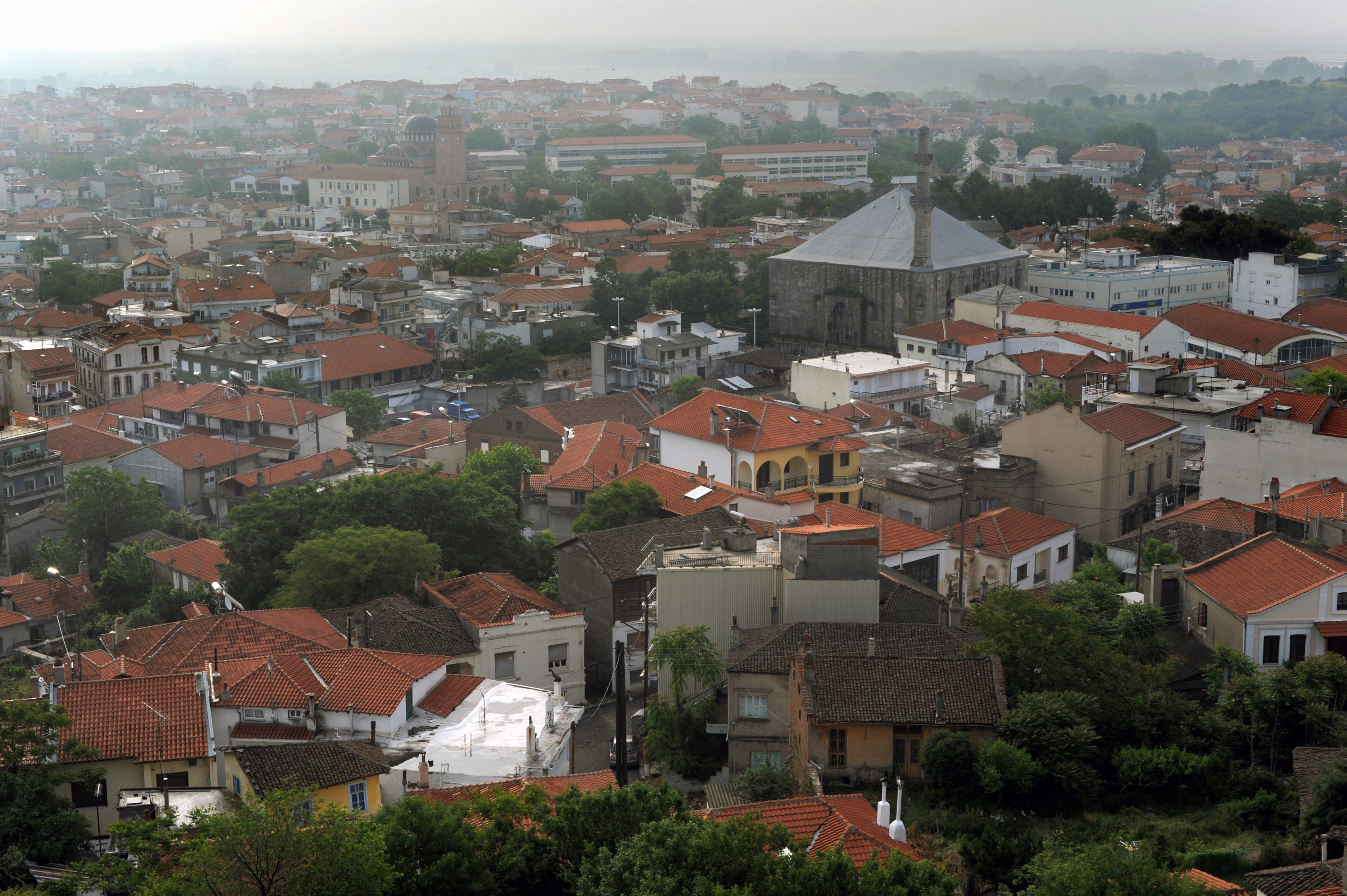 Panoramic view of Didymoteicho (from the castles), West Thrace, Greece.